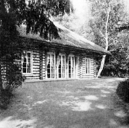 Birch small house in the English Park (Peterhof). Foto 1900.